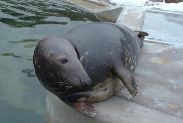 Poland, Hel - seal in research institute.